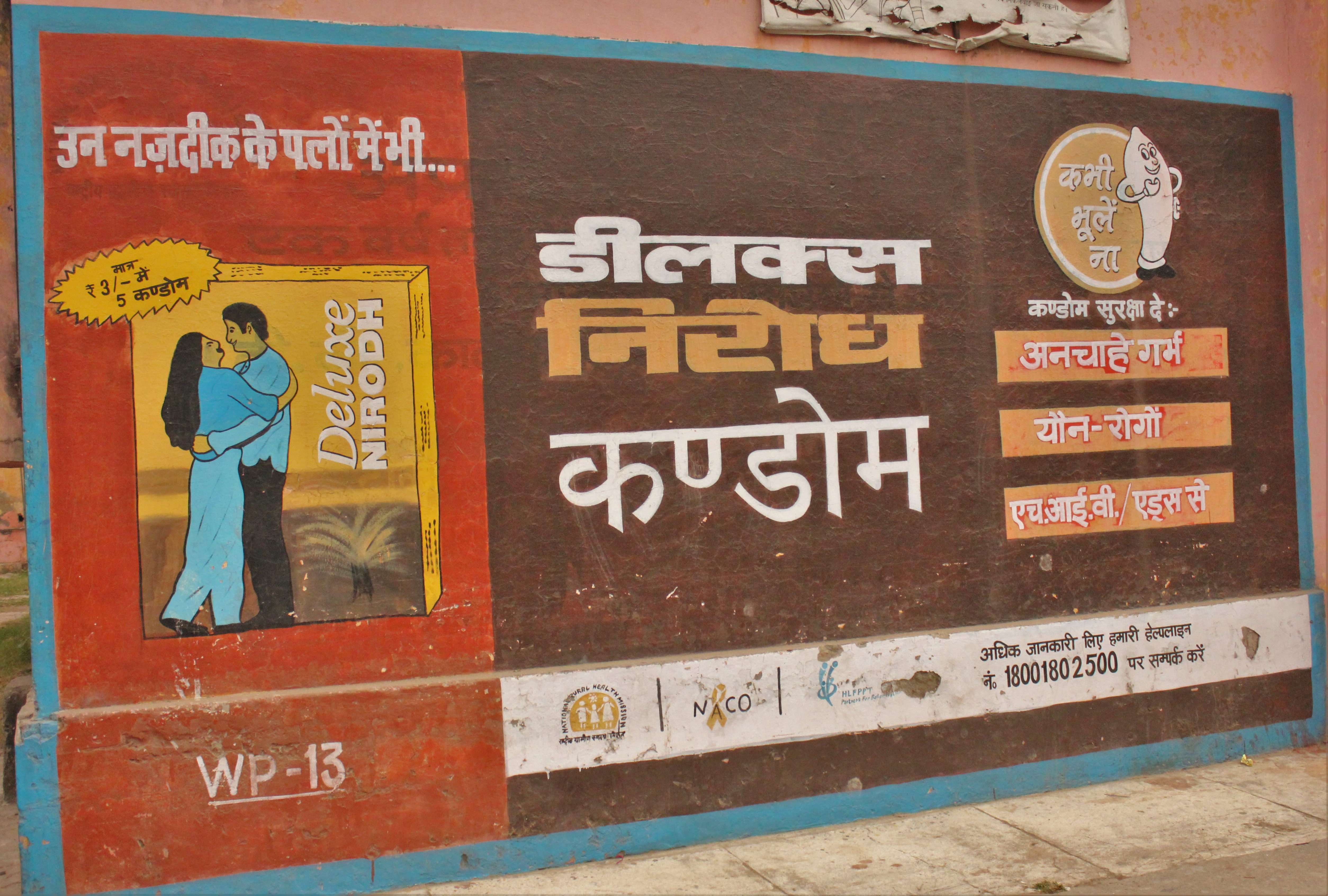 Nirodh advertisement displayed at a hospital wall in Bhelupur, Varanasi.